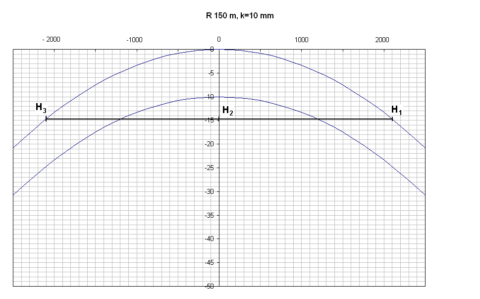 Vogel´s method for investigation of geometrical position of the bogie in a curve. In this example is shown the bogie of ČD class 781 with wheelbase 2x 2100 mm in a curve R = 150 m with the lateral play 10 mm. With contracted flange of 5 mm is passing the this curve geometrically possible. Česky: Vogelova metoda - geometrické vyšetření možné polohy podvozku v oblouku. Rozvor podvozku 2x 2100 mm (ČD řada 781), šířka kolejového kanálu 10 mm, R = 150 m. Při zeslabení okolku středního dvojkolí o 5 mm je průjezd obloukem možný.